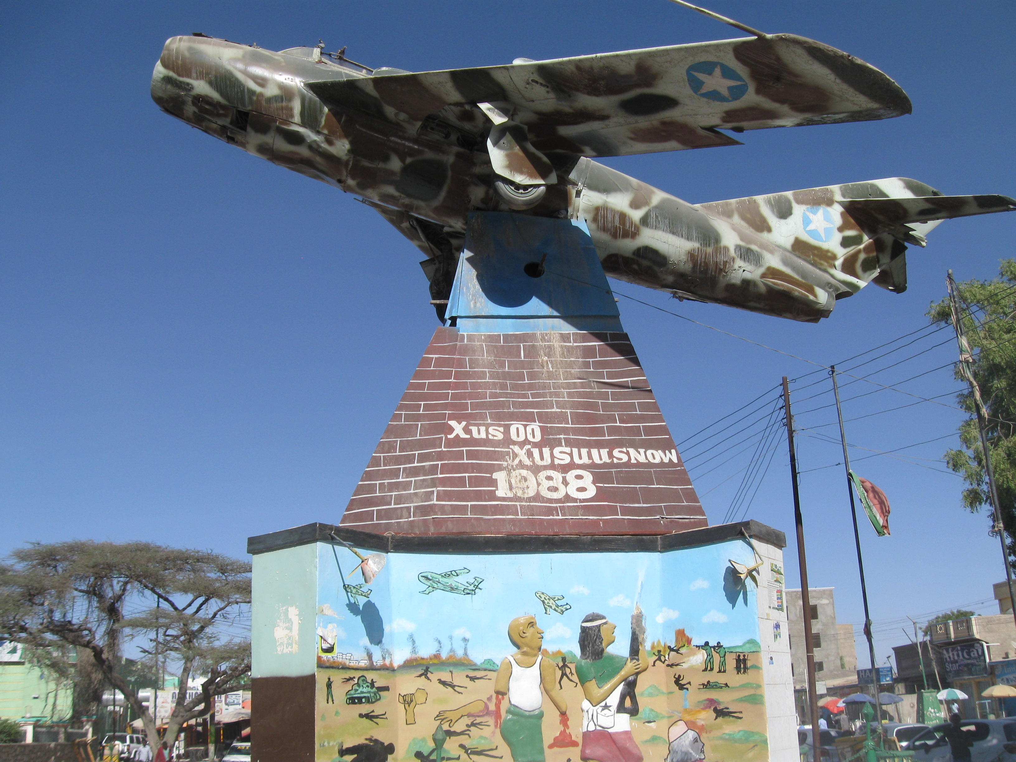 Somalia (Somaliland)